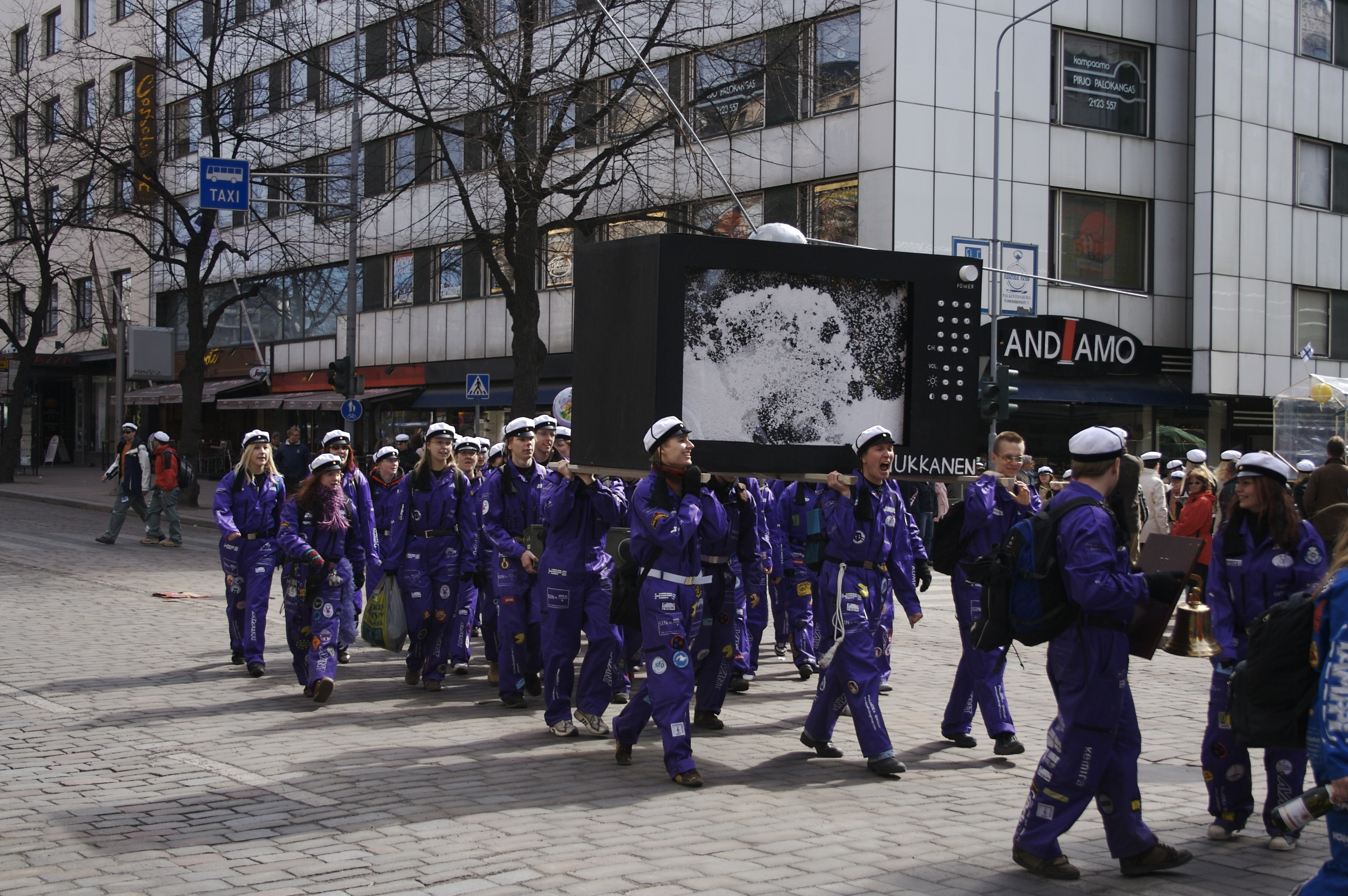 Freshmen of Tampere university of Technology marching in parade on the main street Hämeenkatu, Tampere, Finland. The students are wearing their purple student overalls of the department of Science and Technology their university and white engineering student caps with large black tassels.